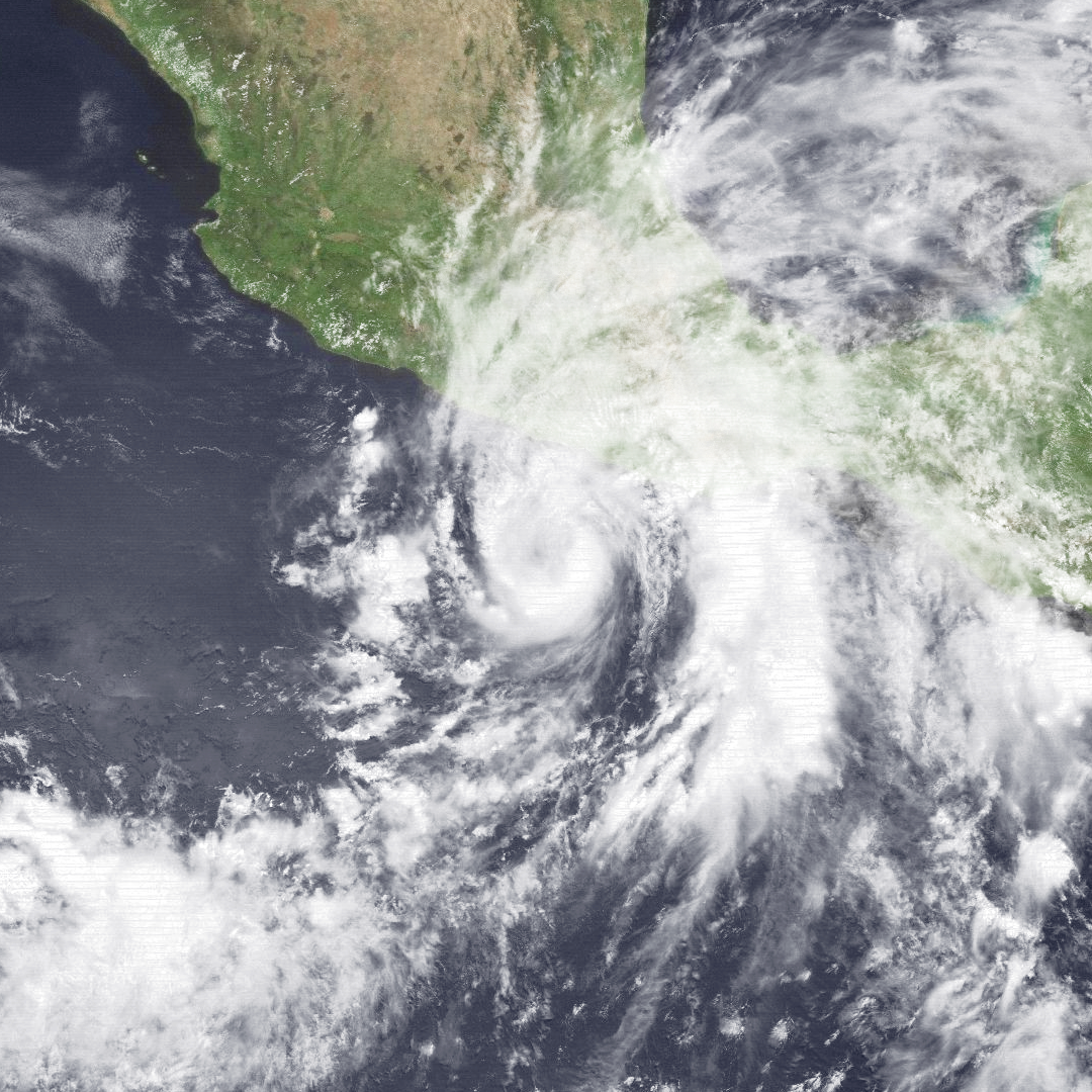 Hurricane Cosme at peak intensity southwest of the Mexican coast on June 21, 1989